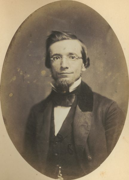 description here